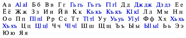 EN: Rutul alphabet (Dagestan, Russia). RU: Рутульский алфавит (Дагестан, Россия).